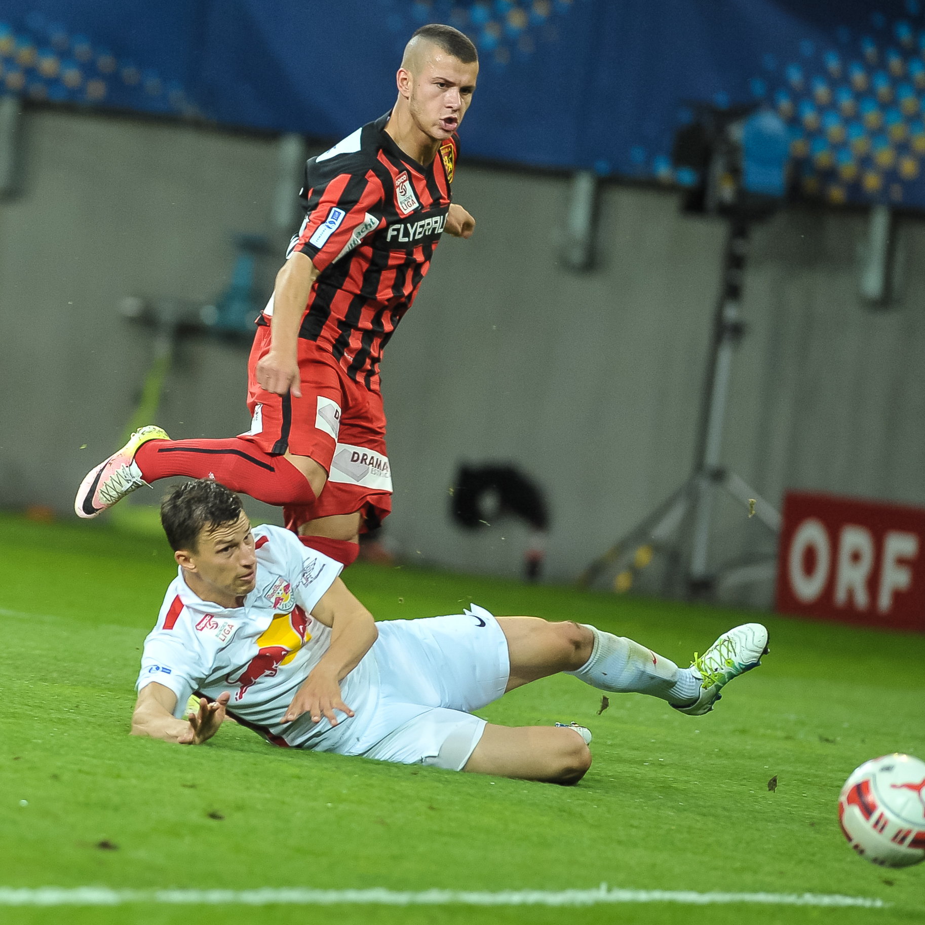 ÖFB Samsung Cup-Finale - FC Admira Wacker Mödling vs FC Red Bull Salzburg am 19. Mai 2016 in Klagenfurt. Bild zeigt Srdan Spiridonovic (ADM) und Stefan Lainer (RBS).